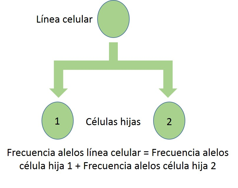 Silent mutations